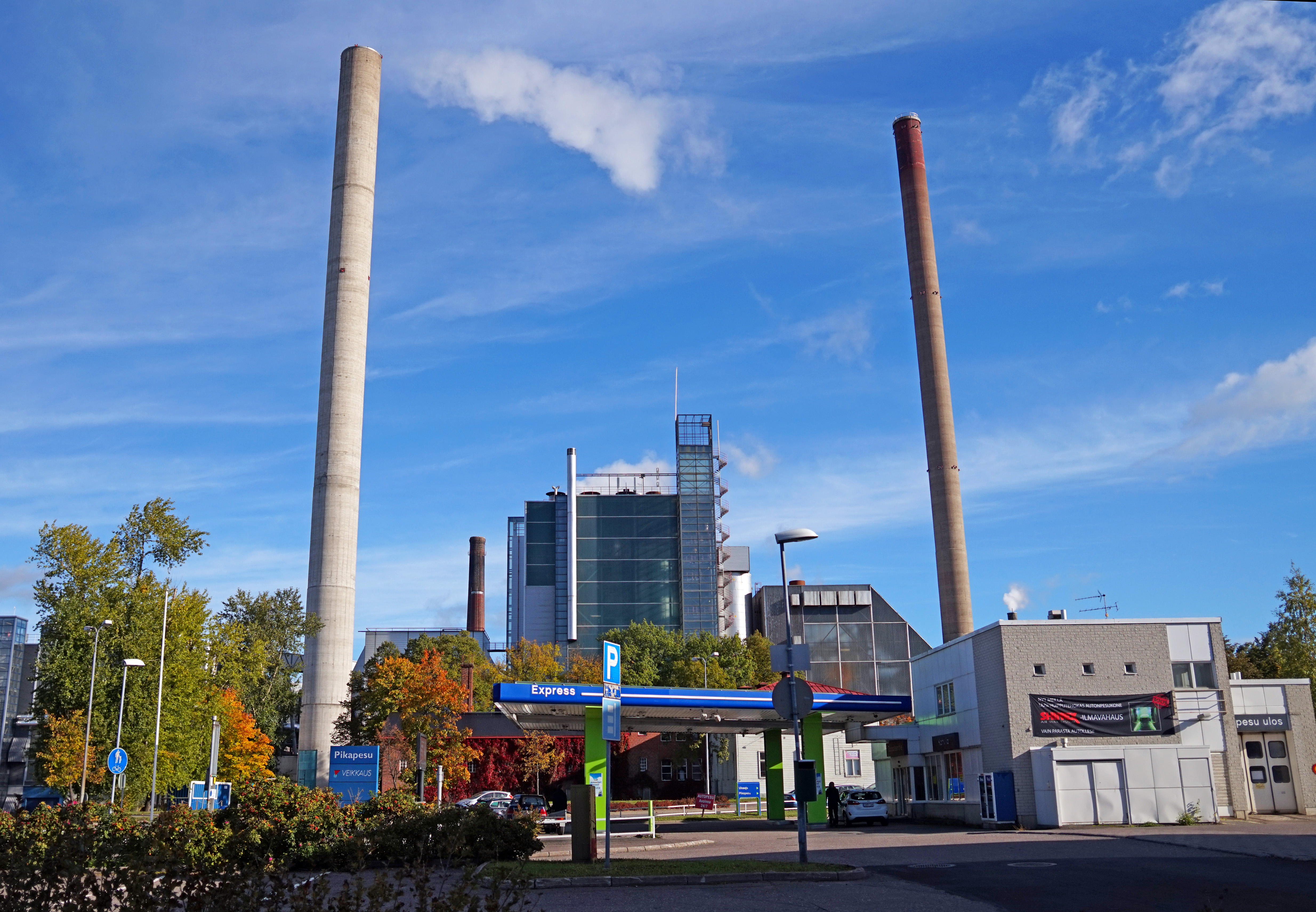 Varkaus, Stora Enso paper mill